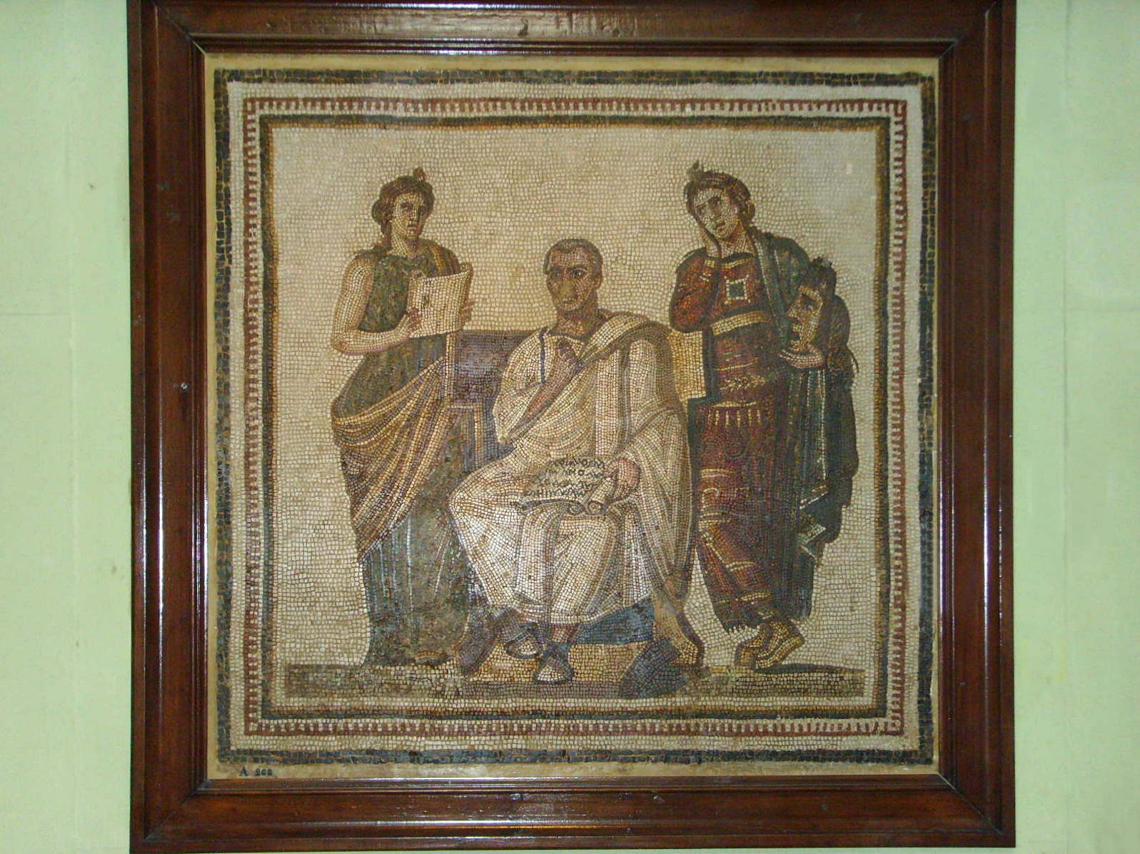 Virgil mosaic in the Bardo National Museum